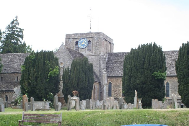 Church of England parish church of All Saints, Faringdon (officially Great Faringdon), Oxfordshire (formerly Berkshire).